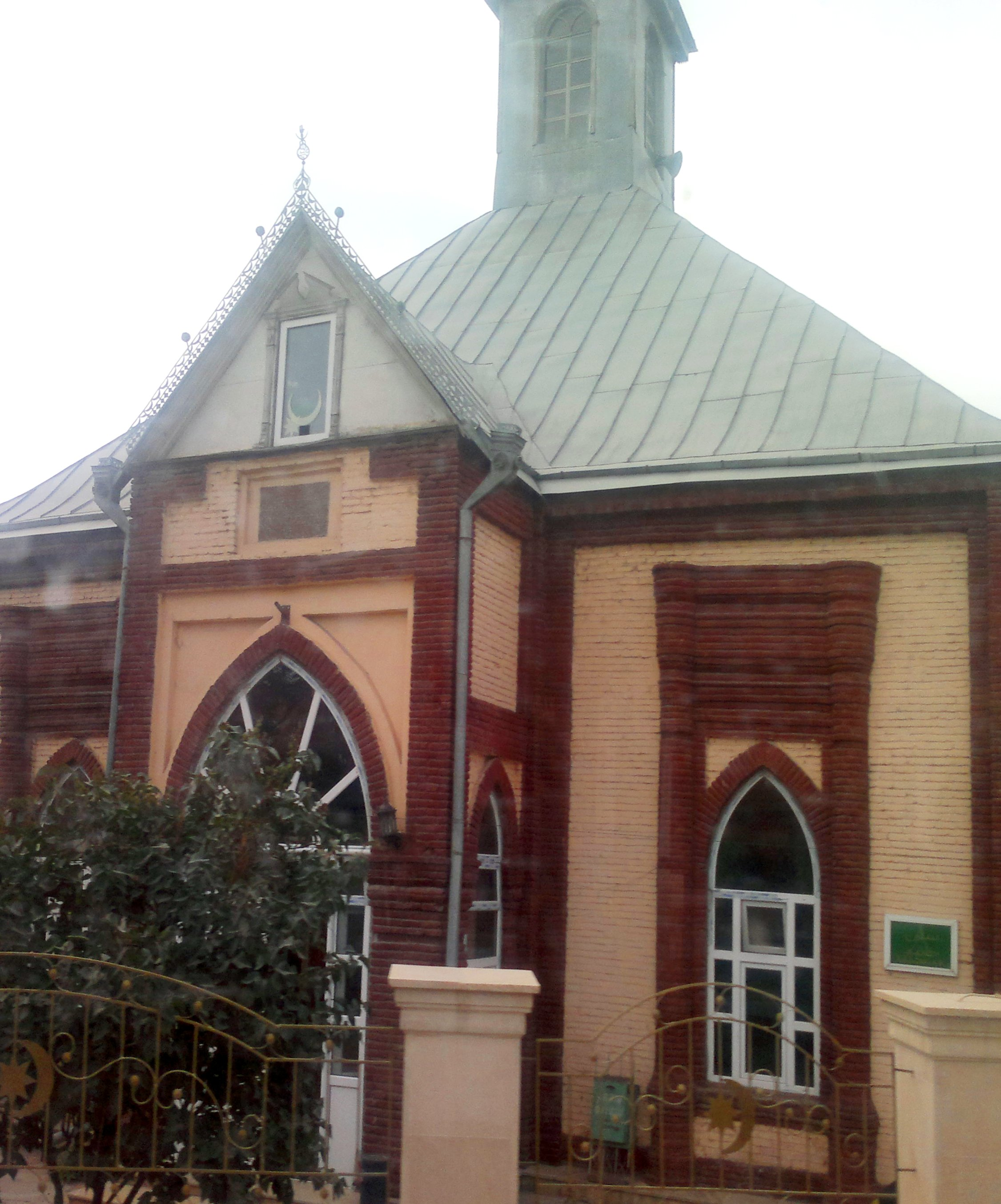 Sakina khanim mosque in Quba. Built in 1854.